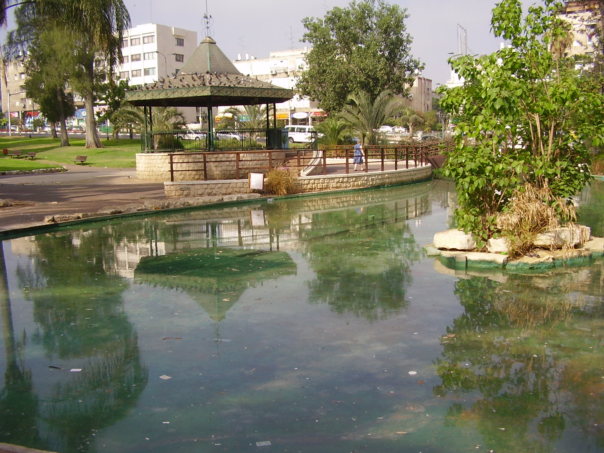 city garden in rishon lezion